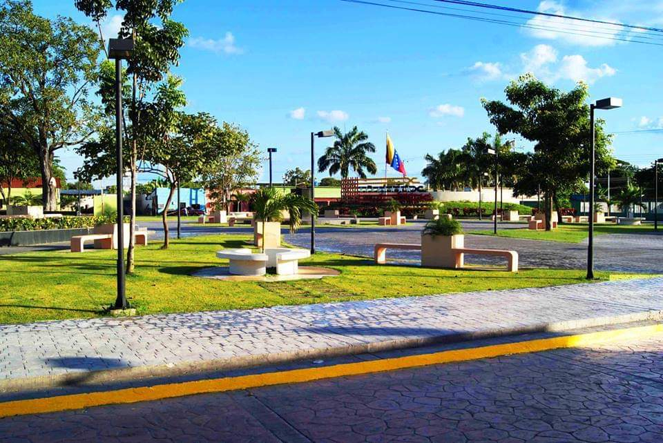 Plaza Hugo C - Antiguo Parque